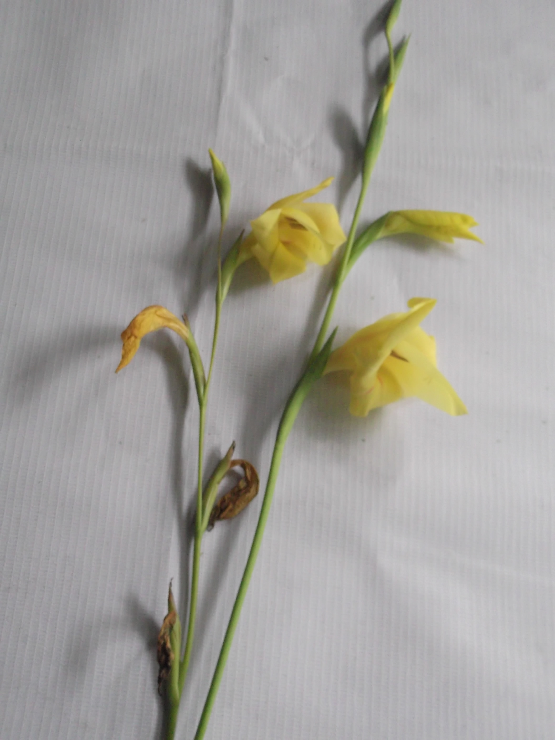 Cormus plant,flowers yellow.